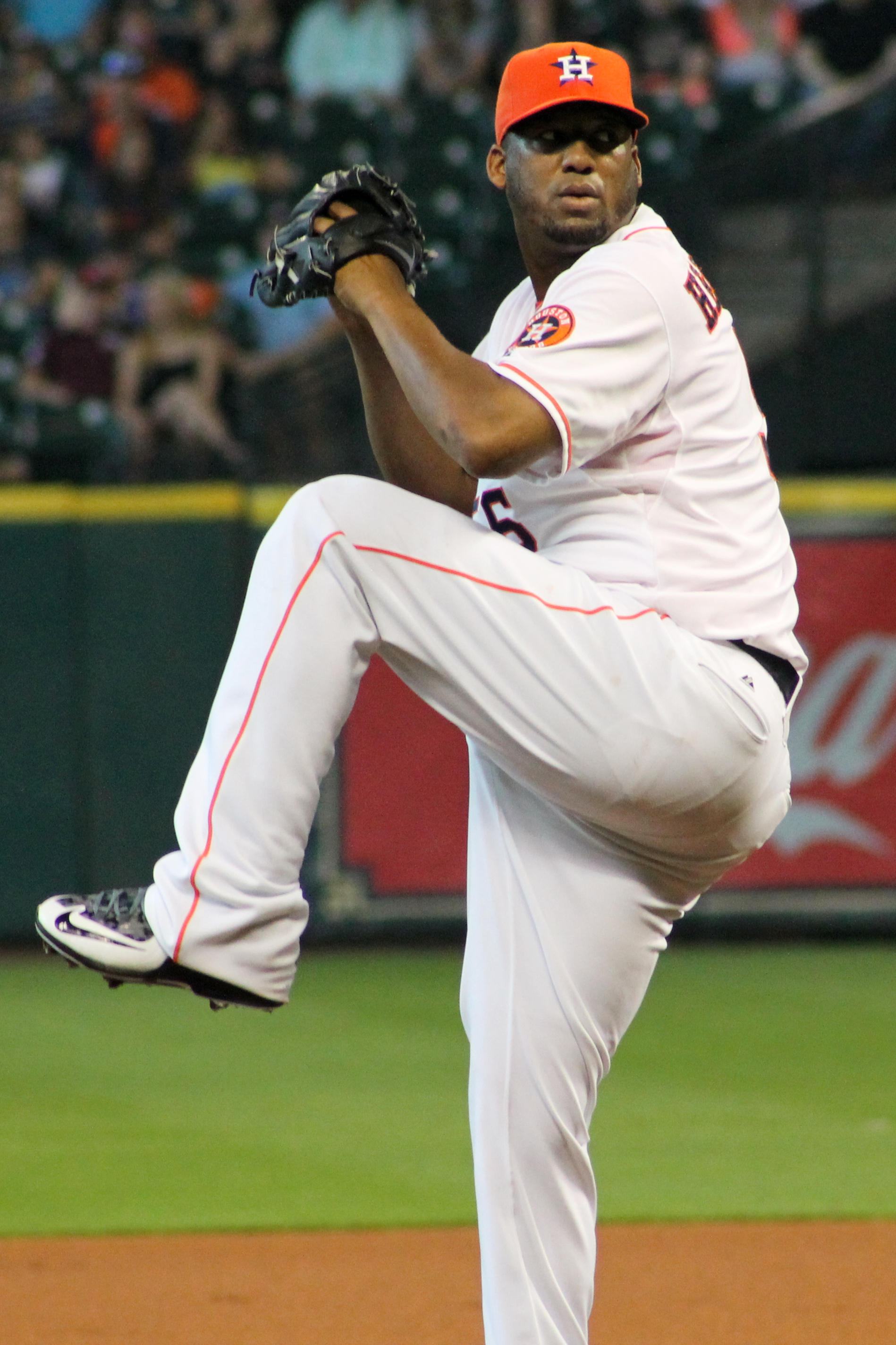 Professional baseball starting pitcher Roberto Hernández at Minute Maid Park in May 2015.